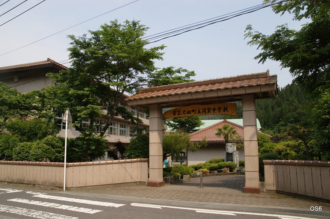 筒賀中学校(Junior high school)